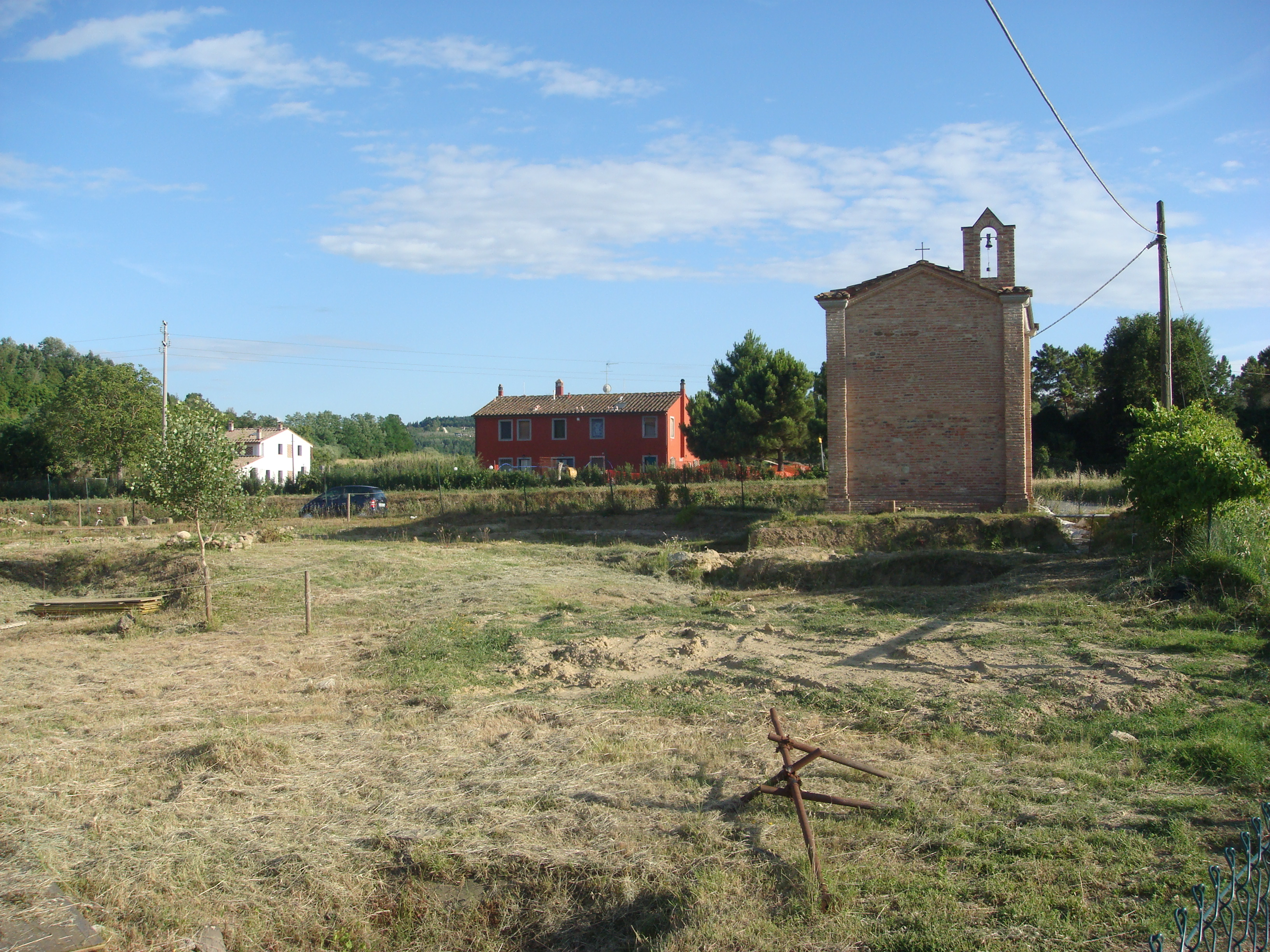 View of San Genesio site, San Minato